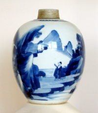 Kangxi period (1662 to 1722) blue and white porcelain tea caddy.